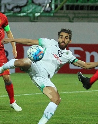 Ali Hamam